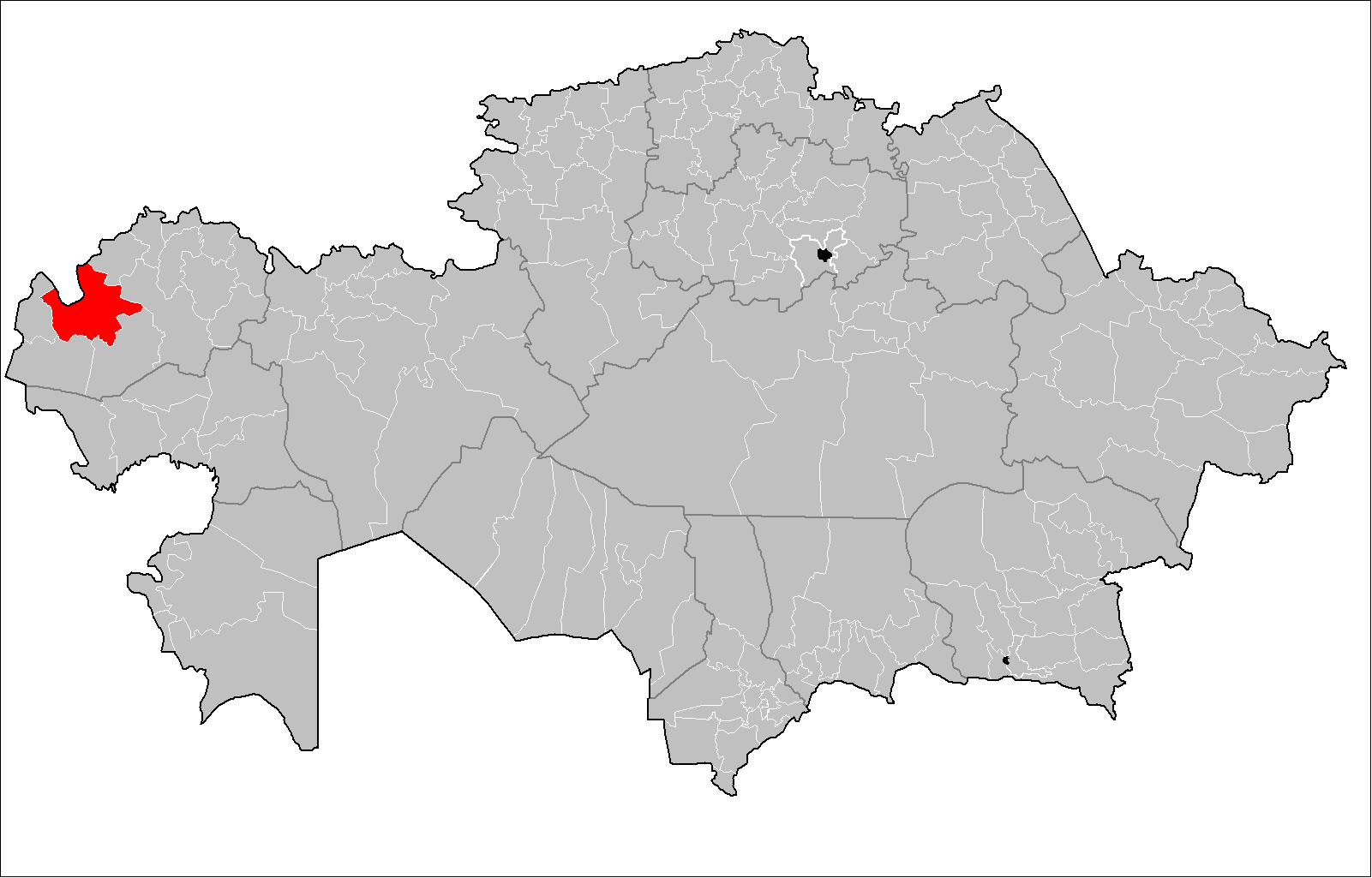 Map of Kaztal District in Kazakhstan. for public domain use, using MapInfo Professional v8.5 and various mapping resources.